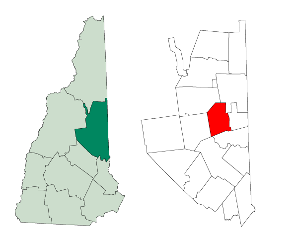 Created from Boundary/Border Outline Files of the Libre Map Project which held a BY-SA creative commons license. Data origionally from 2000 US Census boundary data.